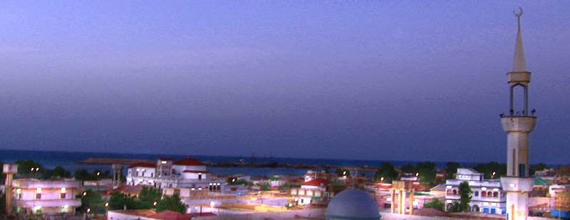 The Bosaso (Puntland, Somalia) skyline at dusk.